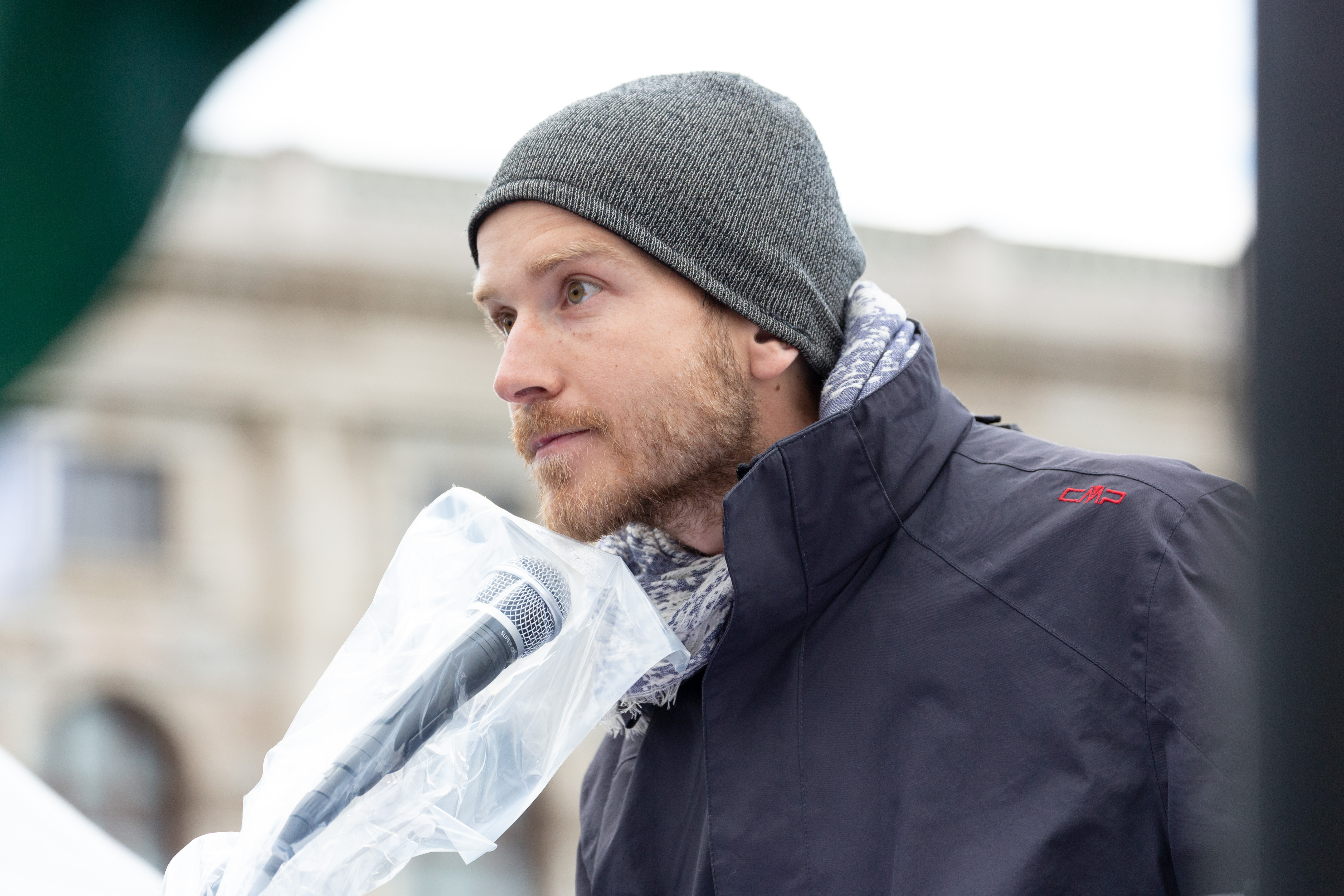 Kilian Jörg at the 2-Meter-Abstand Demo für Kunst und Kultur #3 (2 meter distance demonstration for art and culture #3) on Maria-Theresien-Platz in Vienna,Austria).